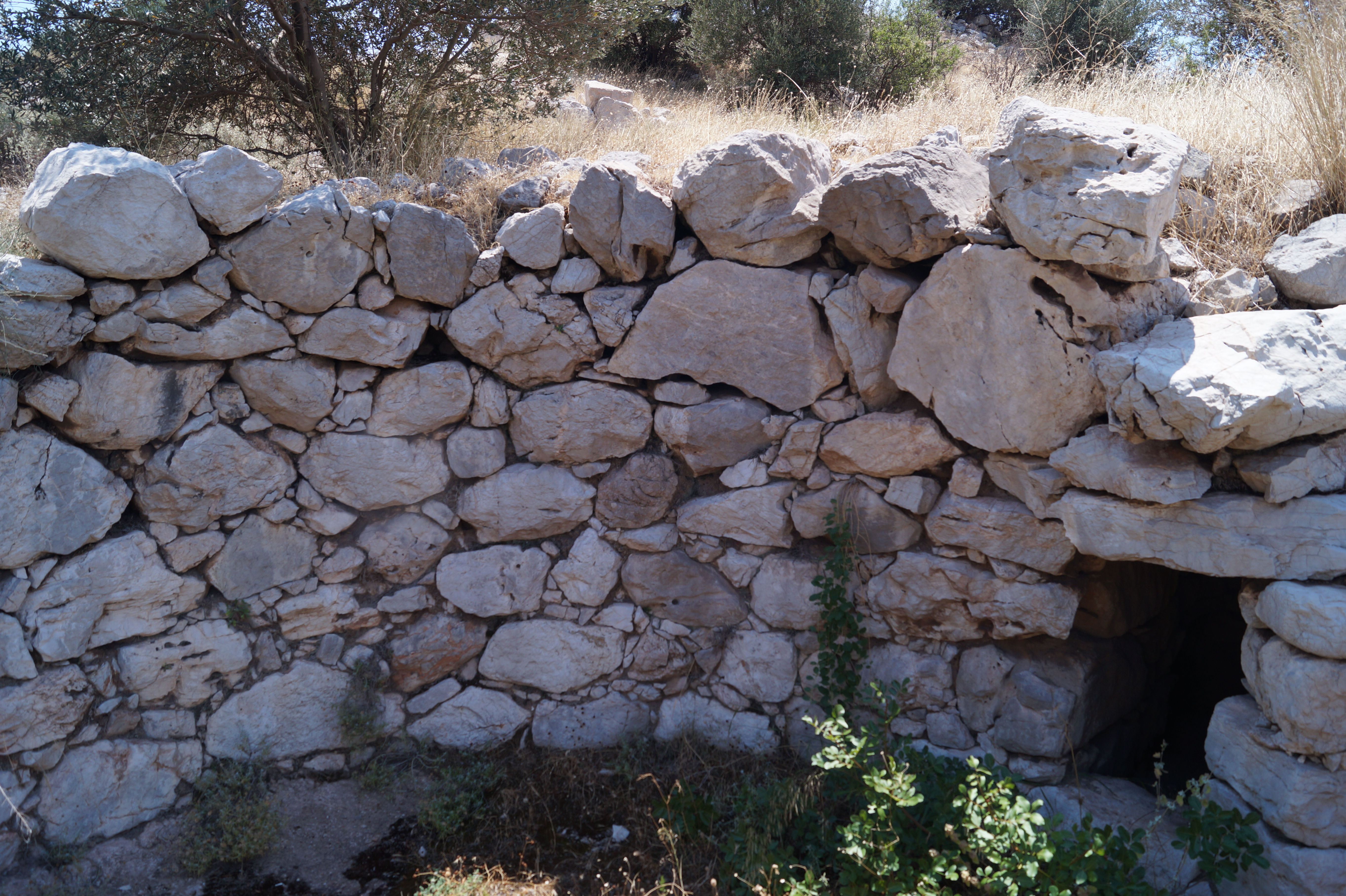 Medeon, Boeotia, Greece: West wall and entrance to the side chamber of the tholos tomb (A1 or 239).